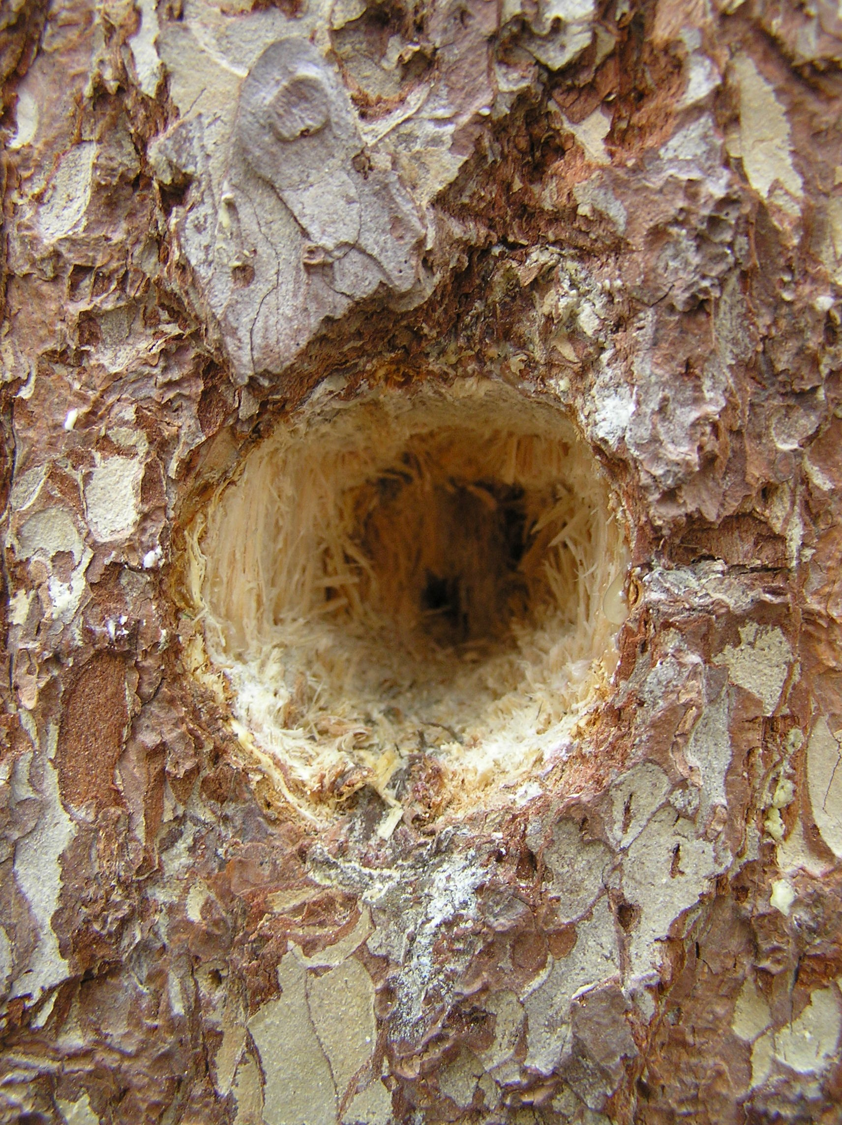 Hollow dug by Dendrocopus sp. in Pinus sylvestris, Brok, Poland